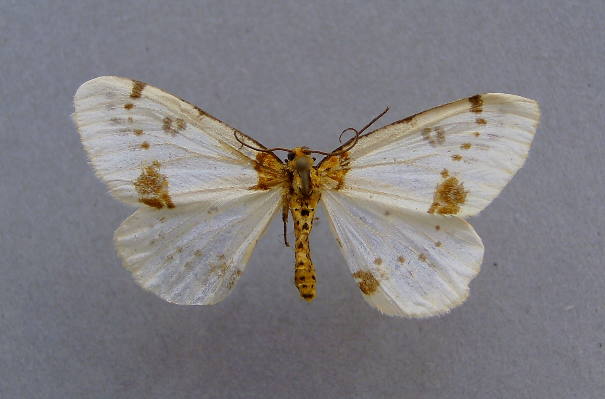 Abraxas pantaria, Ribes de Freser, Spain